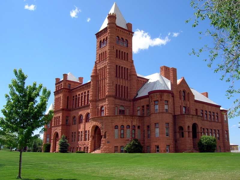 The Westminster Castle in Westminster, Colorado near Federal Blvd & W 84th Ave